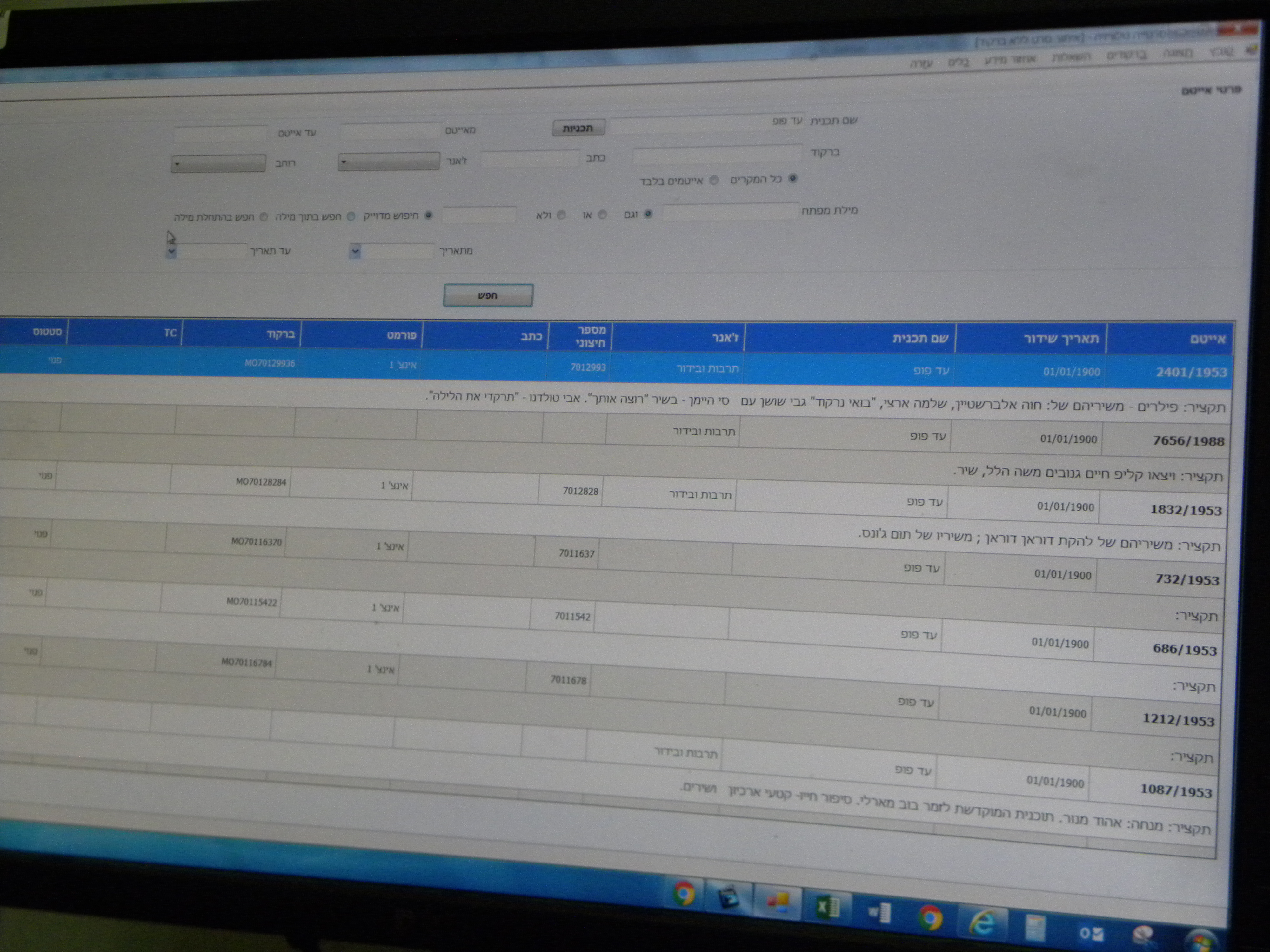 Israel Broadcasting Authority's archive of television recordings